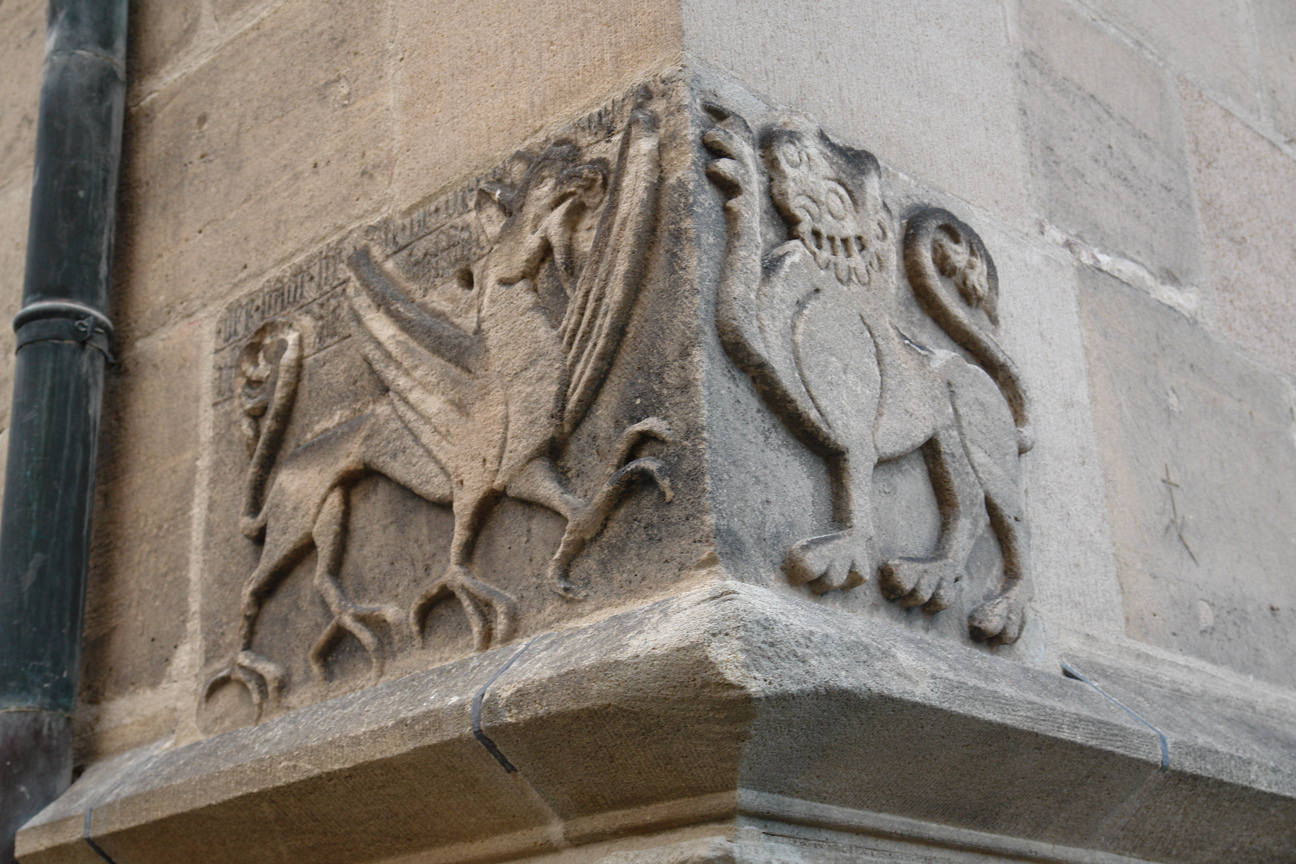 Stiftskirche Tübingen (Germany) - Stone with a griffin and a lion of the probably from the previous church at the South-Western corner